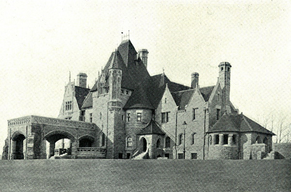 "Woodmont," Alan Wood Jr. Mansion, 1622 Spring Mill Road, Gladwyne, Pennsylvania (1892), Will Price, architect. Caption: Hon. Alan Wood, Jr., Residence "Woodmont," Conshohocken. Hon. Alan Wood, Jr., the sheet iron manufacturer and ex-Congressman, built the palatial mansion now owned by his nephew, Richard G. Wood. It is in the French gothic chateau style, and one of the grandest of American homes. It is 475 acres above tidewater, overlooking the beautiful Schuylkill Valley. William L. Price, architect.